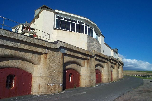 Fort Bovisand. This Napoleonic fort became the well known diving centre of Plymouth.